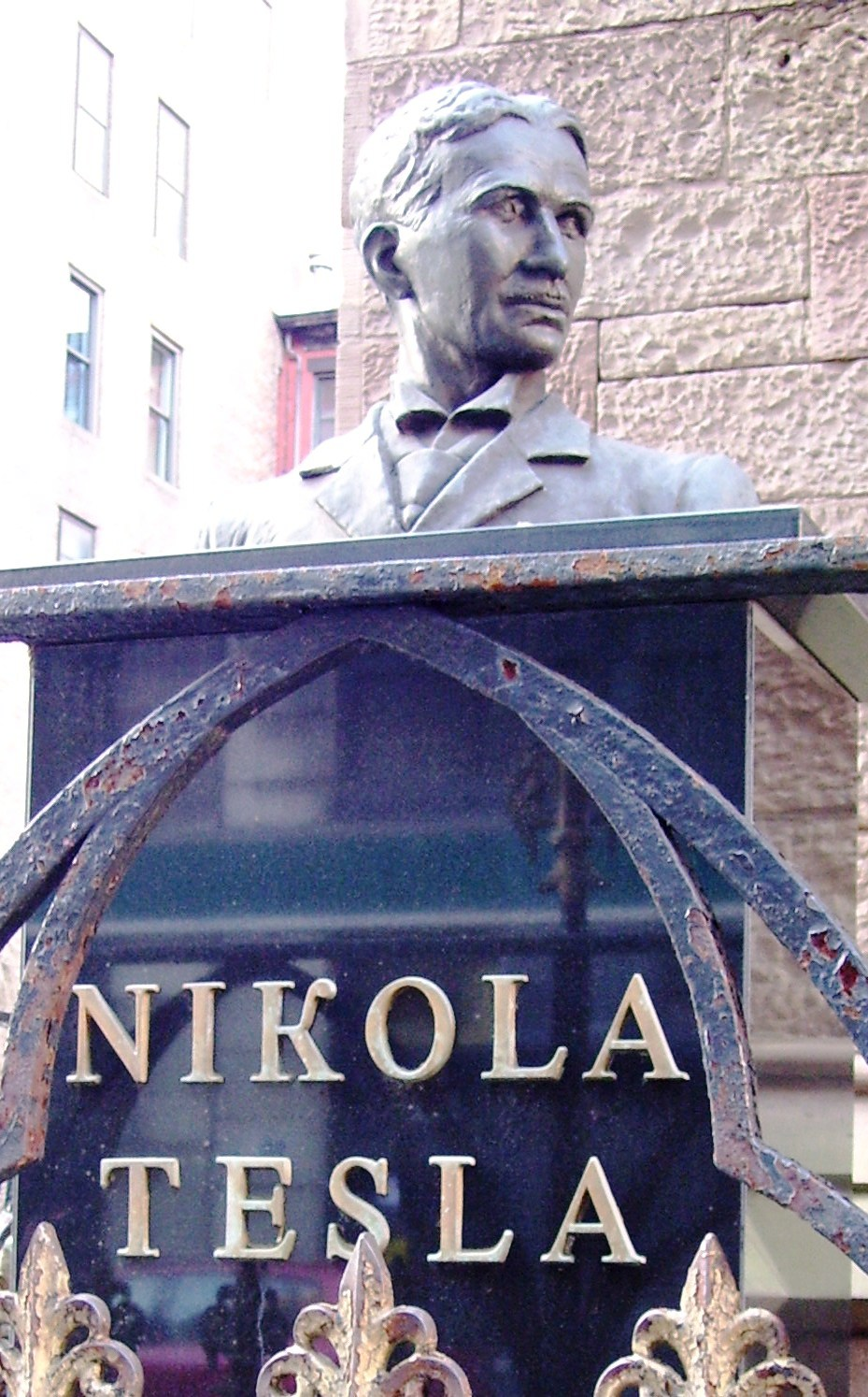 Bust of Nikola Tesla in front of the Serbian Orthodox Church of St. Sava at 25 West 25th Street, Manhattan, New York City